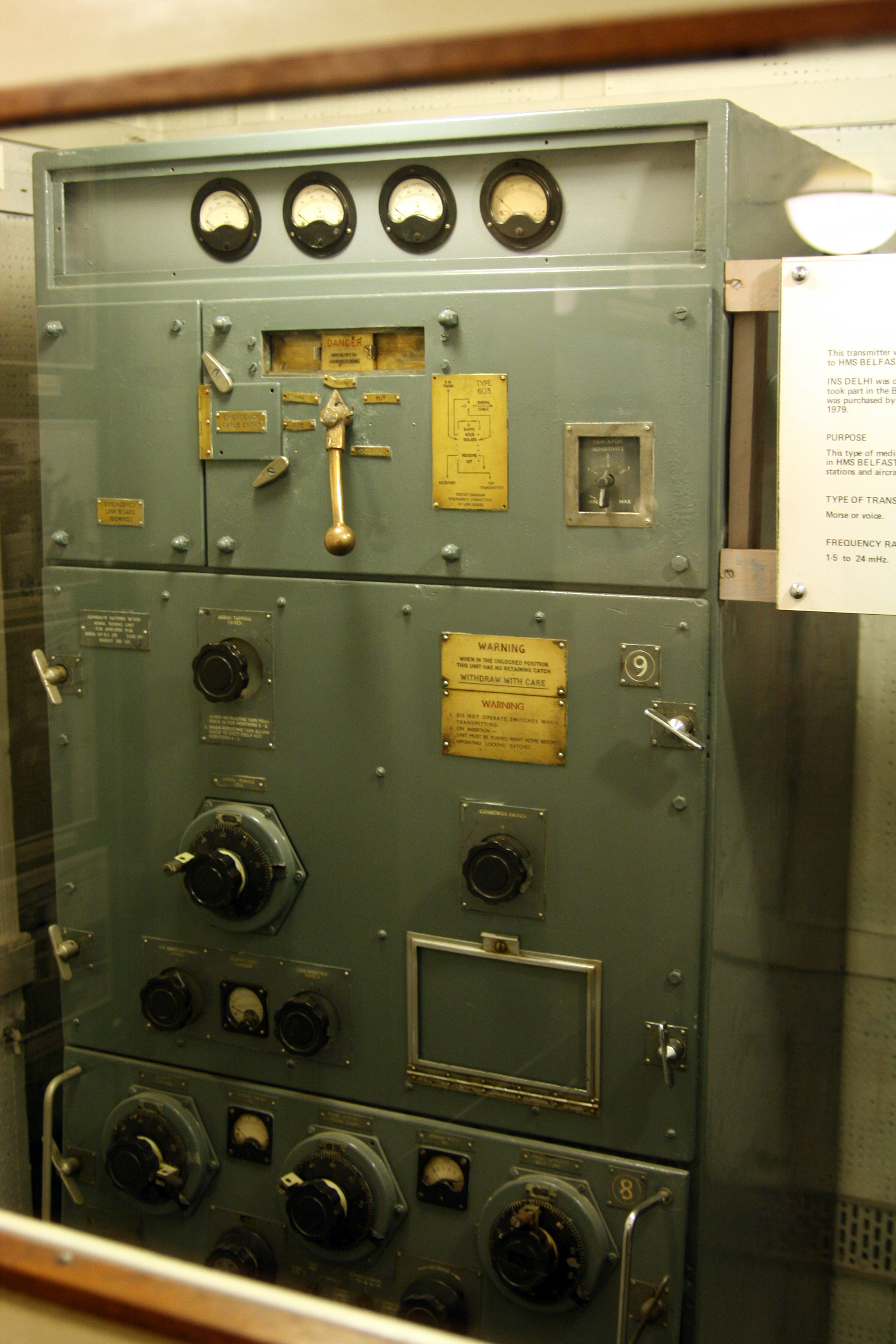 HF radio transmitter on HMS Belfast, type 603, medium power (400 W), fr communications with aircrafts, ships and shore stations.